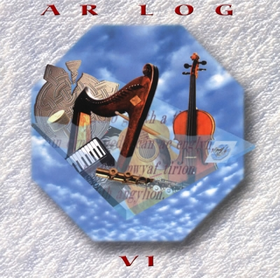 Artwork for the Album Vi by Ar Log